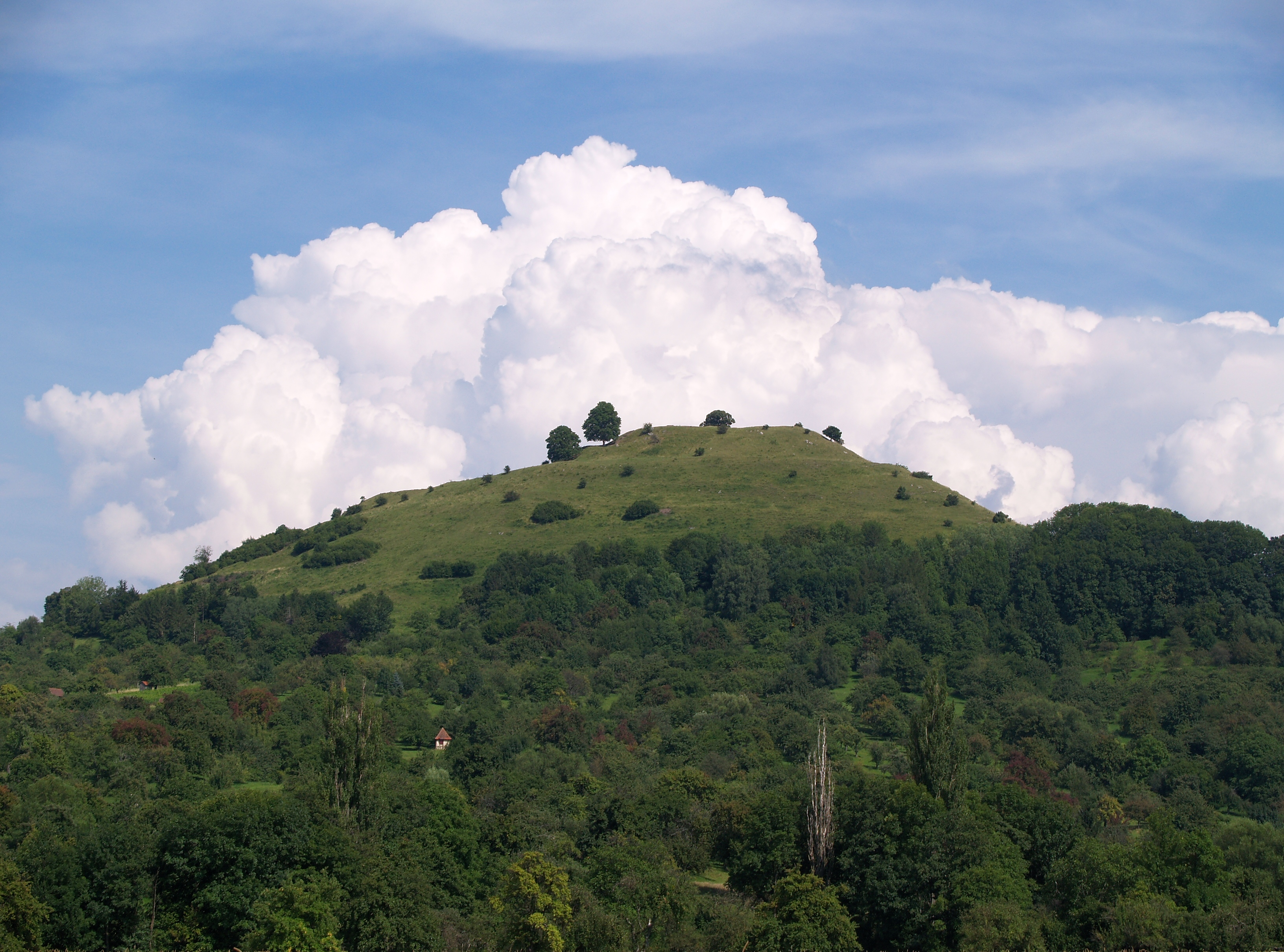 Limburg hill, Weilheim an der Teck, Germany